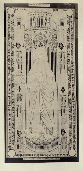 Illustration after a stone rubbing by Léon Le Métayer-Masselin in his book Collection de dalles tumulaires de la Normandie. It shows a ledger stone of Jeanne de Tilly (1448-1495) that is now in the church of Boisney (Eure, France).